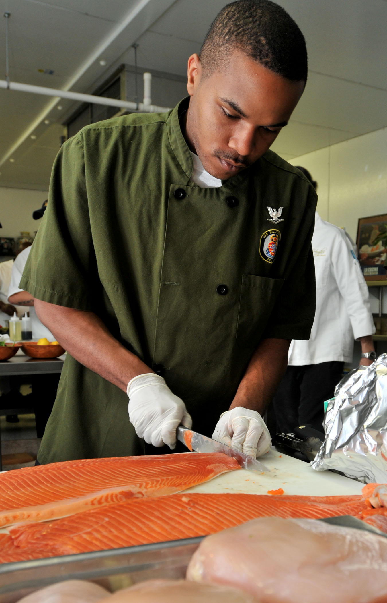 FORT LAUDERDALE, Fla. (April 28, 2010) Culinary Specialist 3rd Class Corey Hartfield, assigned to the guided-missile frigate USS Halyburton (FFG 40), prepares a filet of farm-raised pacific steelhead salmon during a Galley Wars competition at Hugh's Catering. Galley Wars is a competition between teams of cooks from participating military ships attending Fleet Week Port Everglades. This is the 20th annual Fleet Week in Port Everglades, South Florida's annual celebration of the maritime services. (U.S. Navy photo by Mass Communication Specialist 2nd Class Sunday Williams/Released)